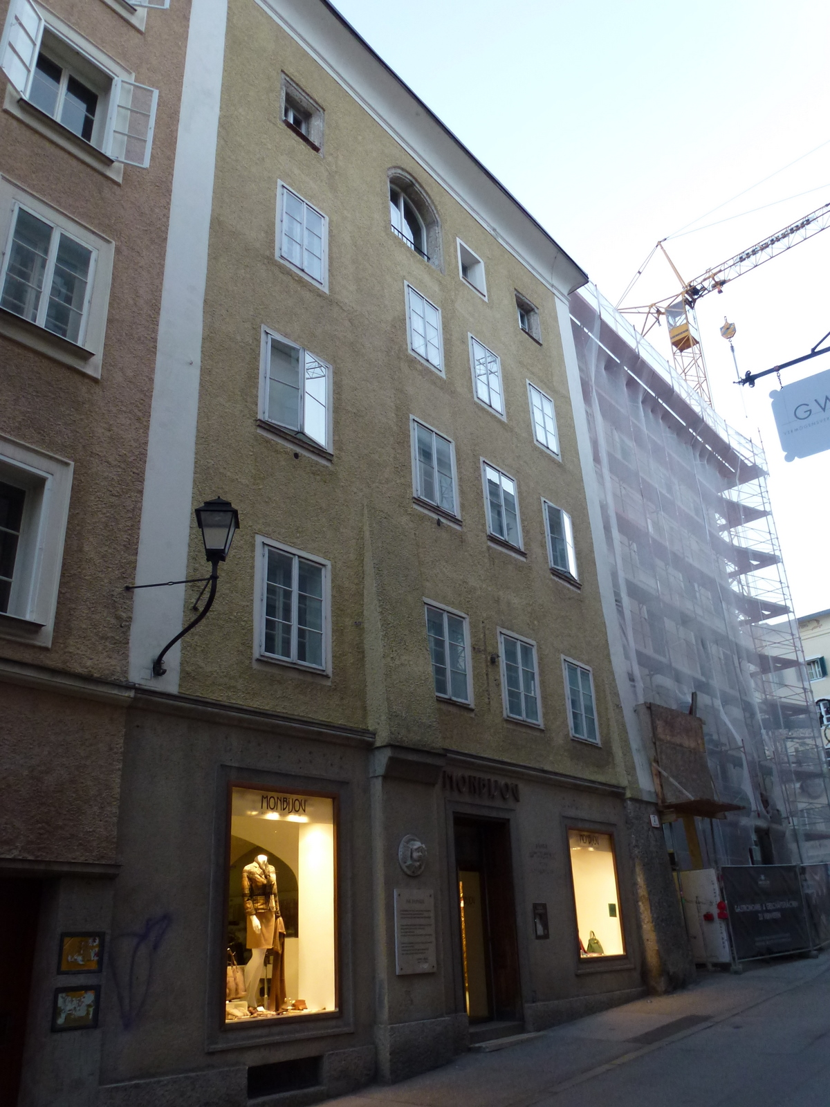 Linzergasse 7, Salzburg, former Engel Apotheke, work-place of poet Georg Trakl